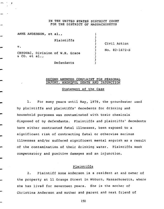 Second Amended Complaint in Anderson v. Cryovac landmark case